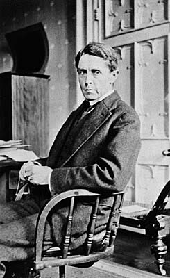 William Harrison Moore seated in his office at the Melbourne University Law School, then located in the Old Law building, University of Melbourne.